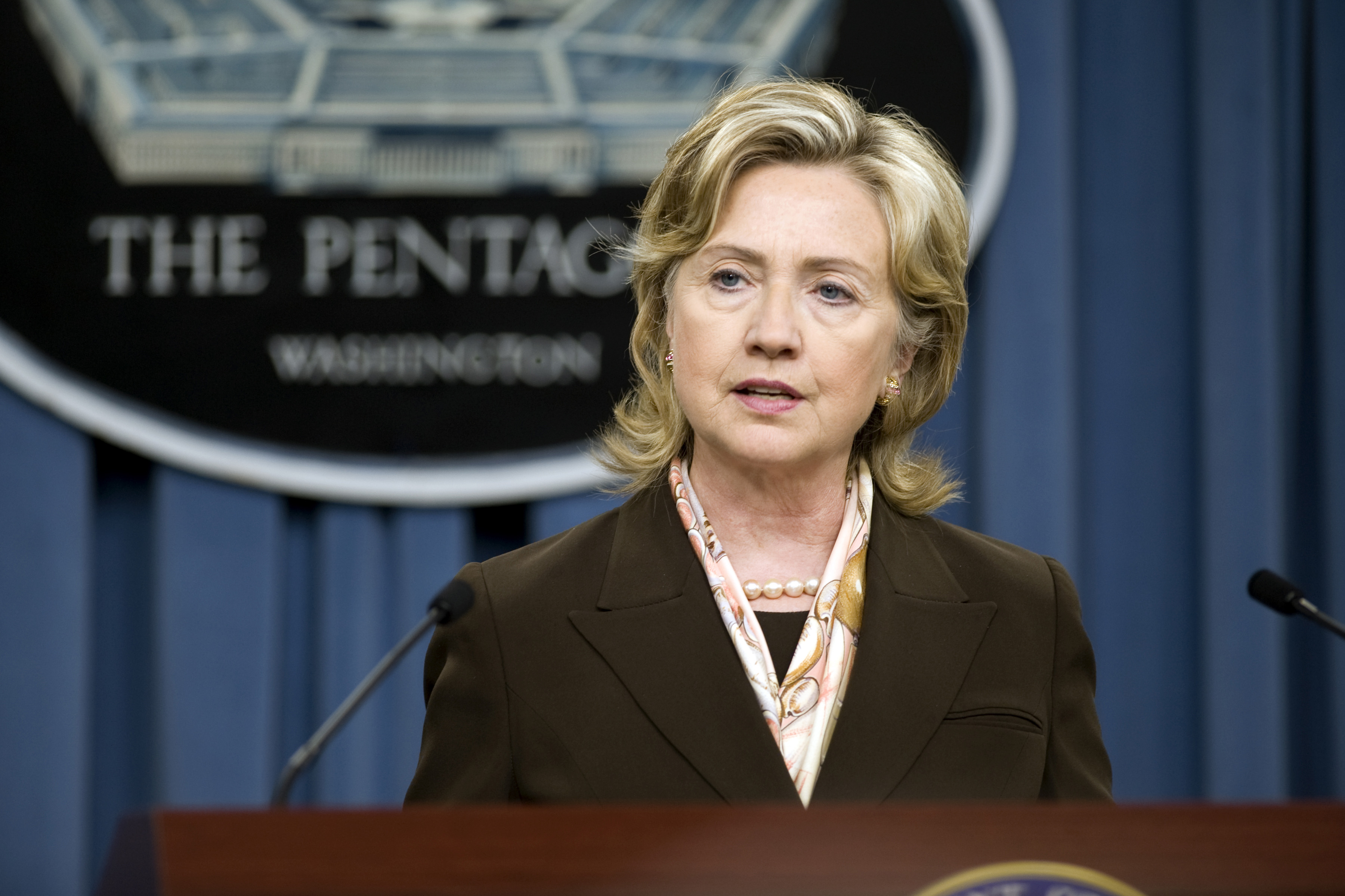 Secretary of State Hillary Clinton conducts a briefing on the Nuclear Posture Review with Secretary of Defense Robert M. Gates, Chairman of the Joint Chiefs of Staff Adm. Mike Mullen and Secretary of Energy Steven Chu in the Pentagon on April 6, 2010.